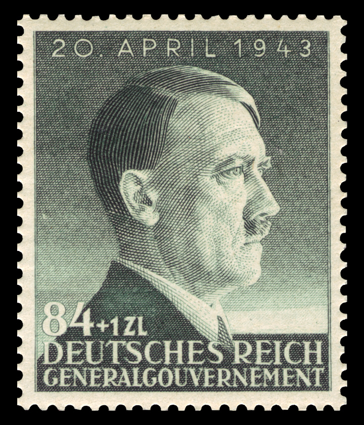 Birthday of Adolf Hitler Ausgabepreis: 84 Groschen + 1 Złoty First Day of Issue / Erstausgabetag: 20. April 1943 Michel-Katalog-Nr: 103 (Generalgouvernement)